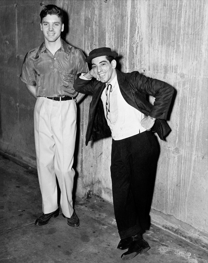 Photograph of Burt Lancaster and Nick Cravat, performing as Lang & Cravat with the Federal Theatre Project Circus